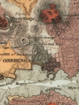 Onehunga and nearby volcanoes. Portion of a map of the Auckland Volcanic Field by Ferdinand von Hochstetter, 1859. Originally published in Geologisch-topographischer Atlas von Neu-Seeland (Hochstetter and Petermann, 1863), and republished in English in 1864.